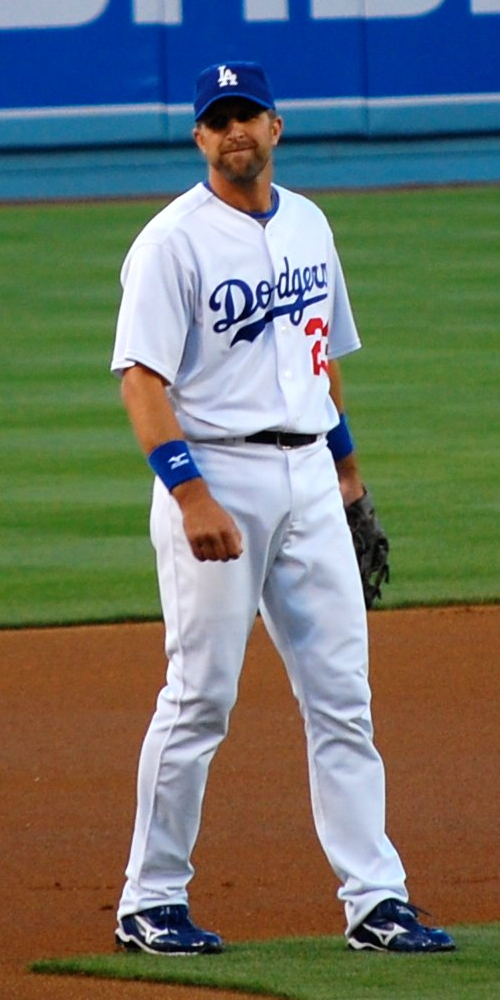 Casey Blake